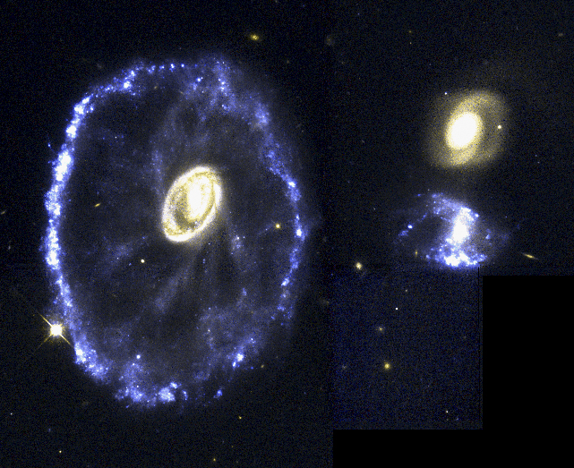 A rare and spectacular head-on collision between two galaxies appears in this NASA Hubble Space Telescope true-color image of the Cartwheel Galaxy, located 500 million light-years away in the constellation Sculptor. The new details of star birth resolved by Hubble provide an opportunity to study how extremely massive stars are born in large fragmented gas clouds. The striking ring-like feature is a direct result of a smaller intruder galaxy — possibly one of two objects to the right of the ring — that careened through the core of the host galaxy. Like a rock tossed into a lake, the collision sent a ripple of energy into space, plowing gas and dust in front of it. Expanding at 200,000 miles per hour, this cosmic tsunami leaves in its wake a firestorm of new star creation. Hubble resolves bright blue knots that are gigantic clusters of newborn stars and immense loops and bubbles blown into space by exploding stars (supernovae) going off like a string of firecrackers. The Cartwheel Galaxy presumably was a normal spiral galaxy like our Milky Way before the collision. This spiral structure is beginning to re-emerge, as seen in the faint arms or spokes between the outer ring and bulls-eye shaped nucleus. The ring contains at least several billion new stars that would not normally have been created in such a short time span and is so large (150,000 light-years across) our entire Milky Way Galaxy would fit inside.